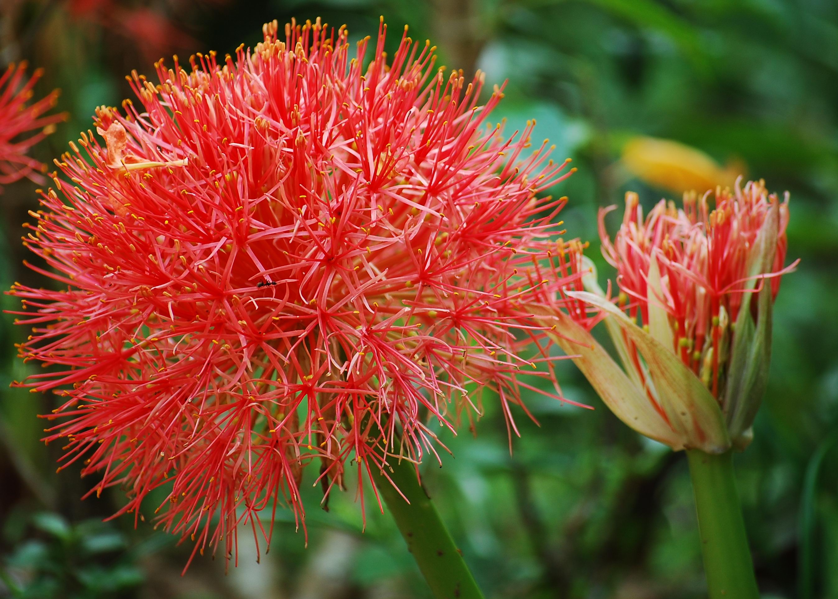 Scadoxus multiflorus. Common names: Blood flower, Catherine wheel, Poison root, Fireball lily, Bloedblom, Gifwortel These plants are poisonous. The genus Scadoxus contains alkaloid- rich, strongly toxic plants. here is more in detail